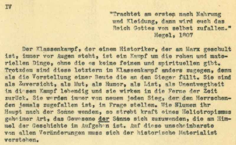 On The Concept of History, version "Abschrift" thesis 4